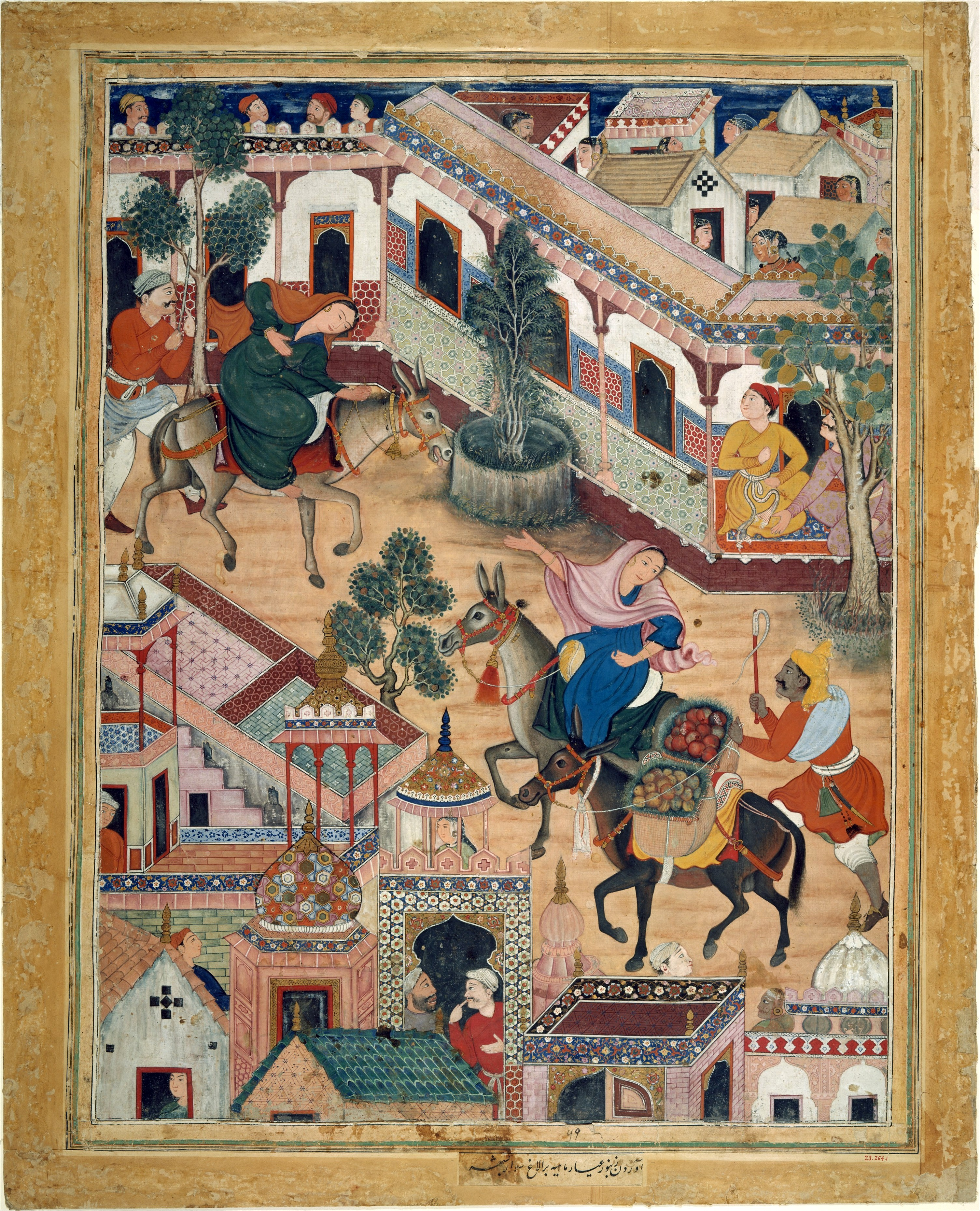 The Spy Zanbur Bringing Mahiyya to the City of Tawariq, Folio from a Hamzanama ca. 1570 (74x57.2 cm) Metmuseum N-Y